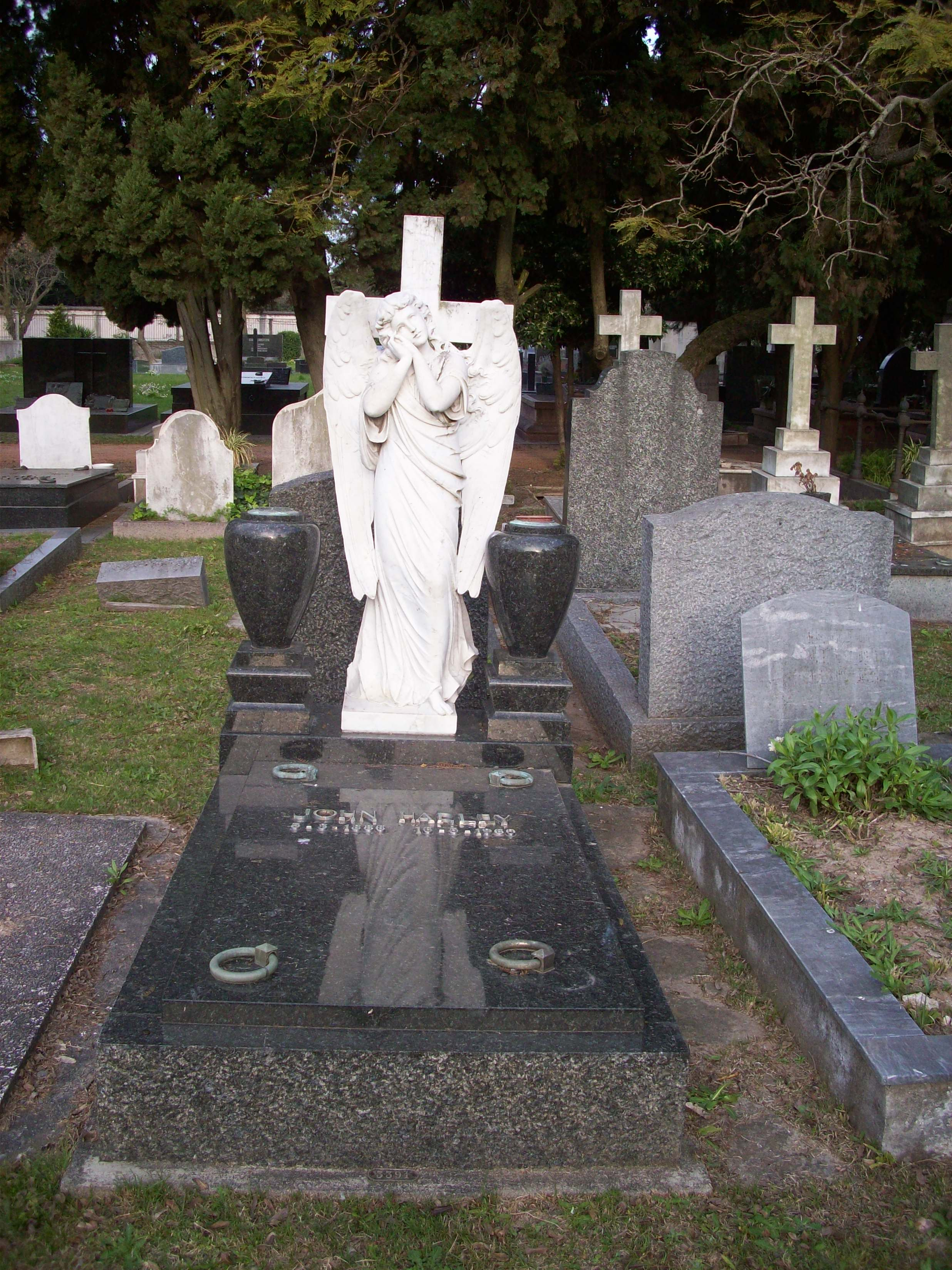 John Harley Gravestone